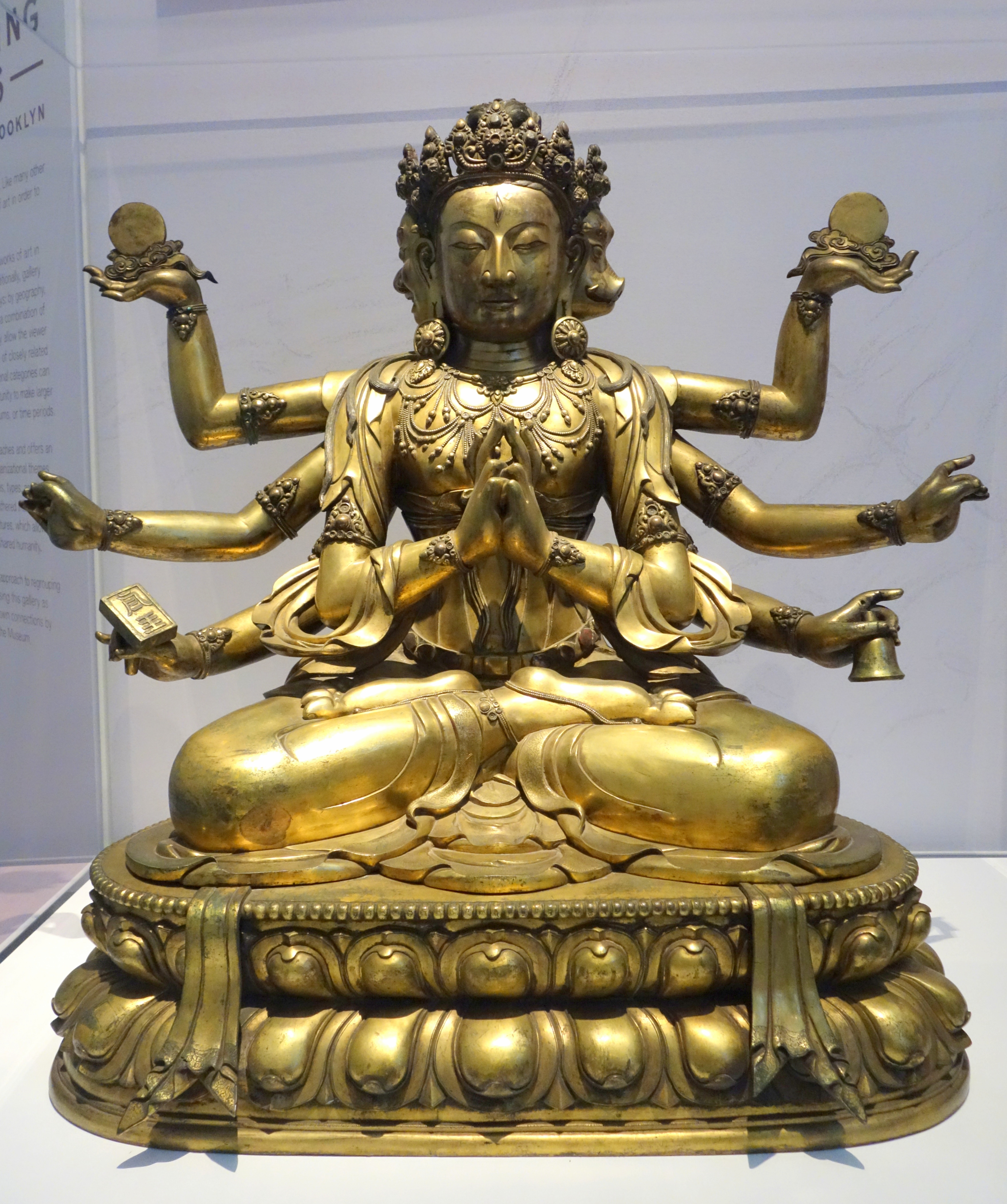 Exhibit in the Brooklyn Museum - Brooklyn, New York, USA. This artwork is in the public domain because the artist died more than 70 years ago.